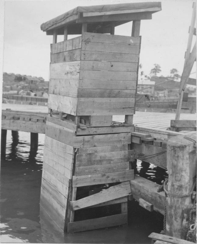 Preventive medicine department, Base K, Leyte [Philippines]. View of latrines on dock, built by the previous Preventive Medicine Department to save many man-hours, and promote cleanliness on the dock. An incinerator is shown in use which eliminates rubbish.World War 2. Base K, 8th Detachment (ref:H-137-C)